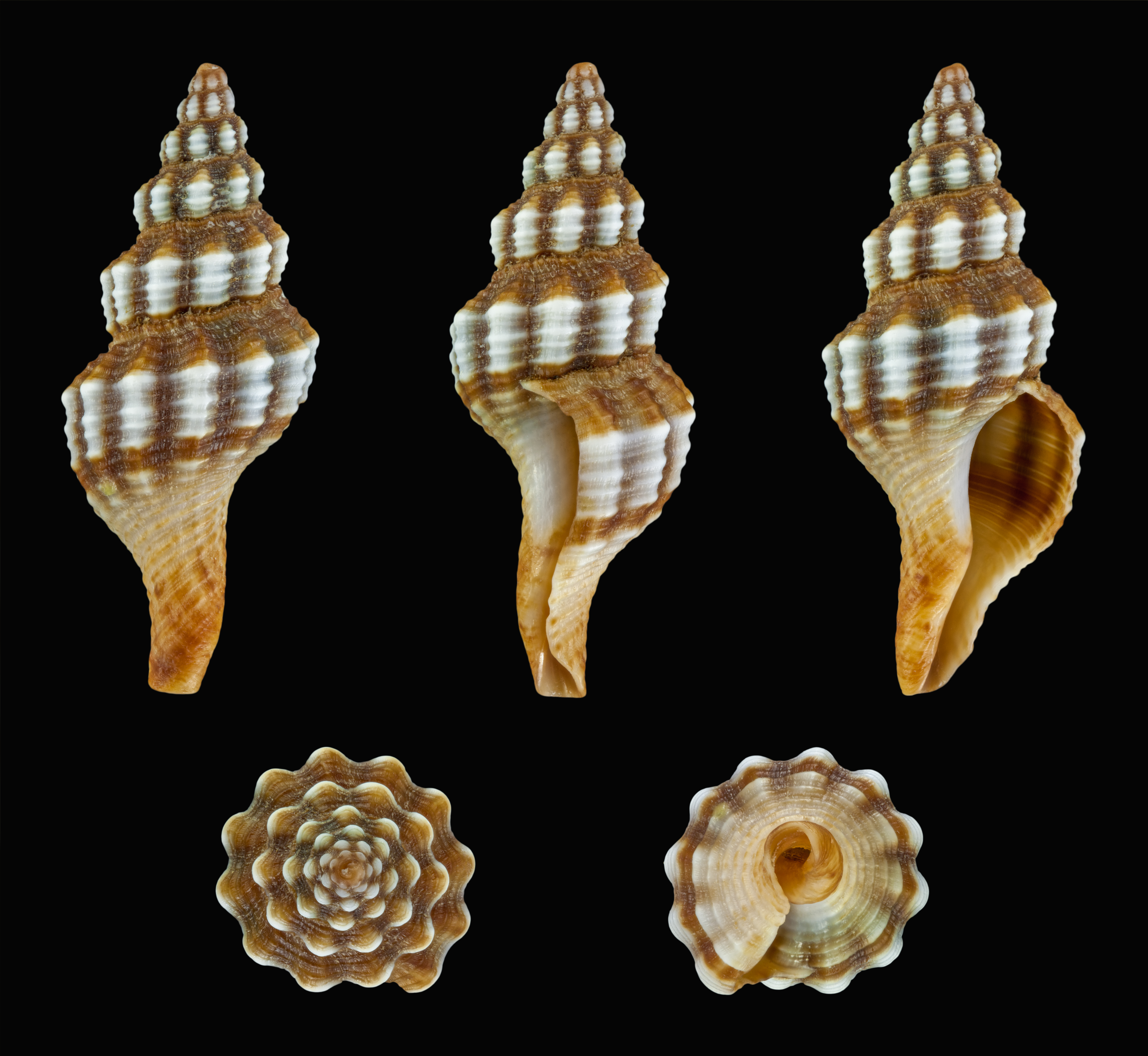 Fusinus syracusanus (Linné, 1758), Syracusan Spindle Shell; Length 2.8 cm; Originating from Mytilene, Greece; Shell of own collection, therefore not geocoded.